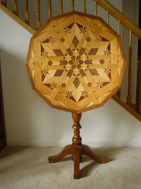 Tilt-top parquetry table, crafted by Isaac Leonard Wise. Photo taken by grandson of craftsman, Richard Walter.